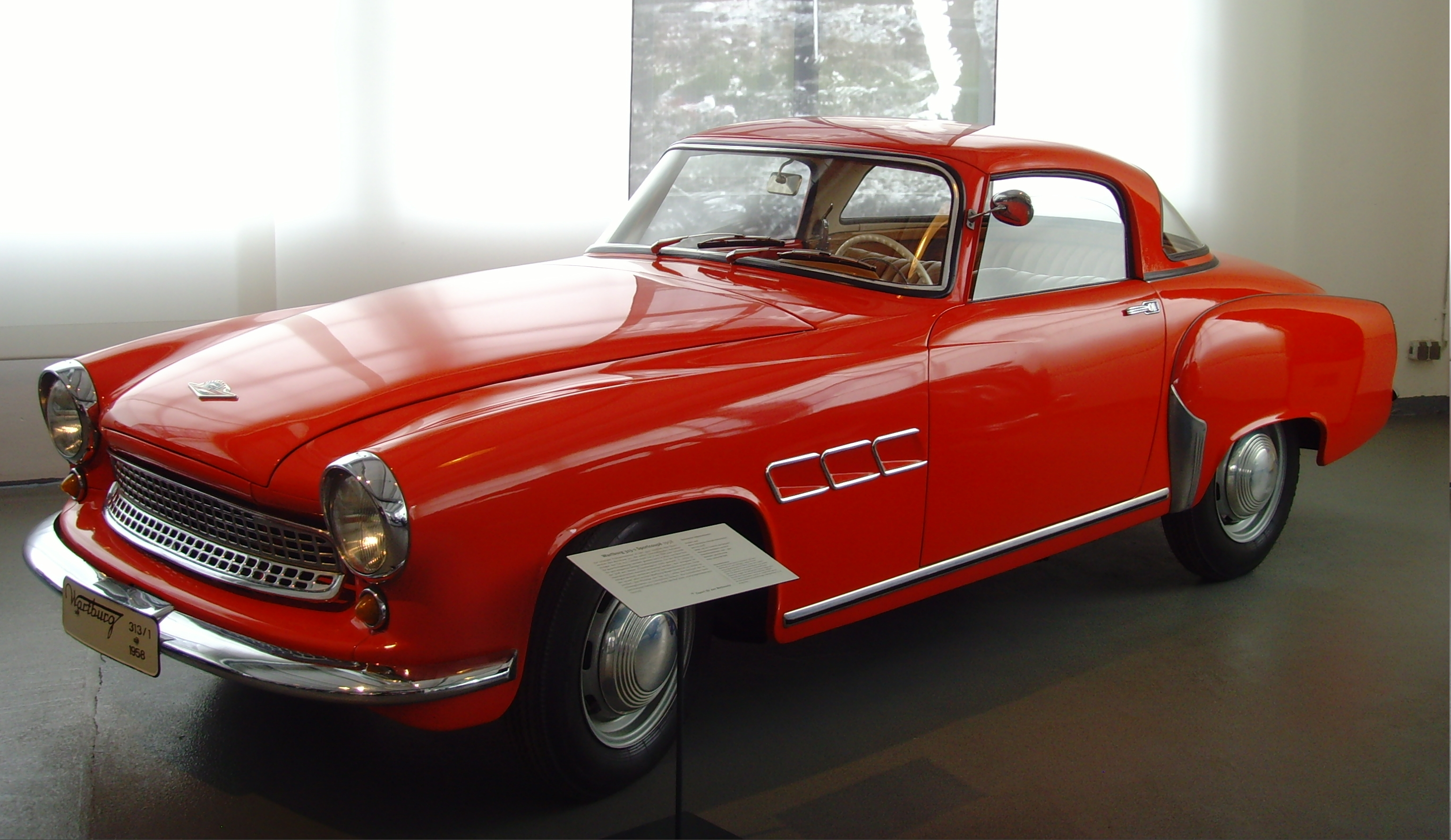 Wartburg 313-1 Sportcoupe 1958